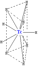 Hydridocomplex of Technetium